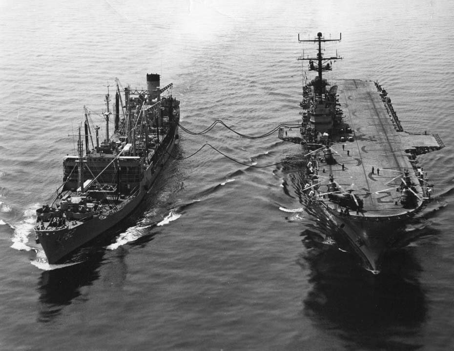 USS Taluga (AO-62) refueling USS Iwo Jima (LPH-2). US Navy photo